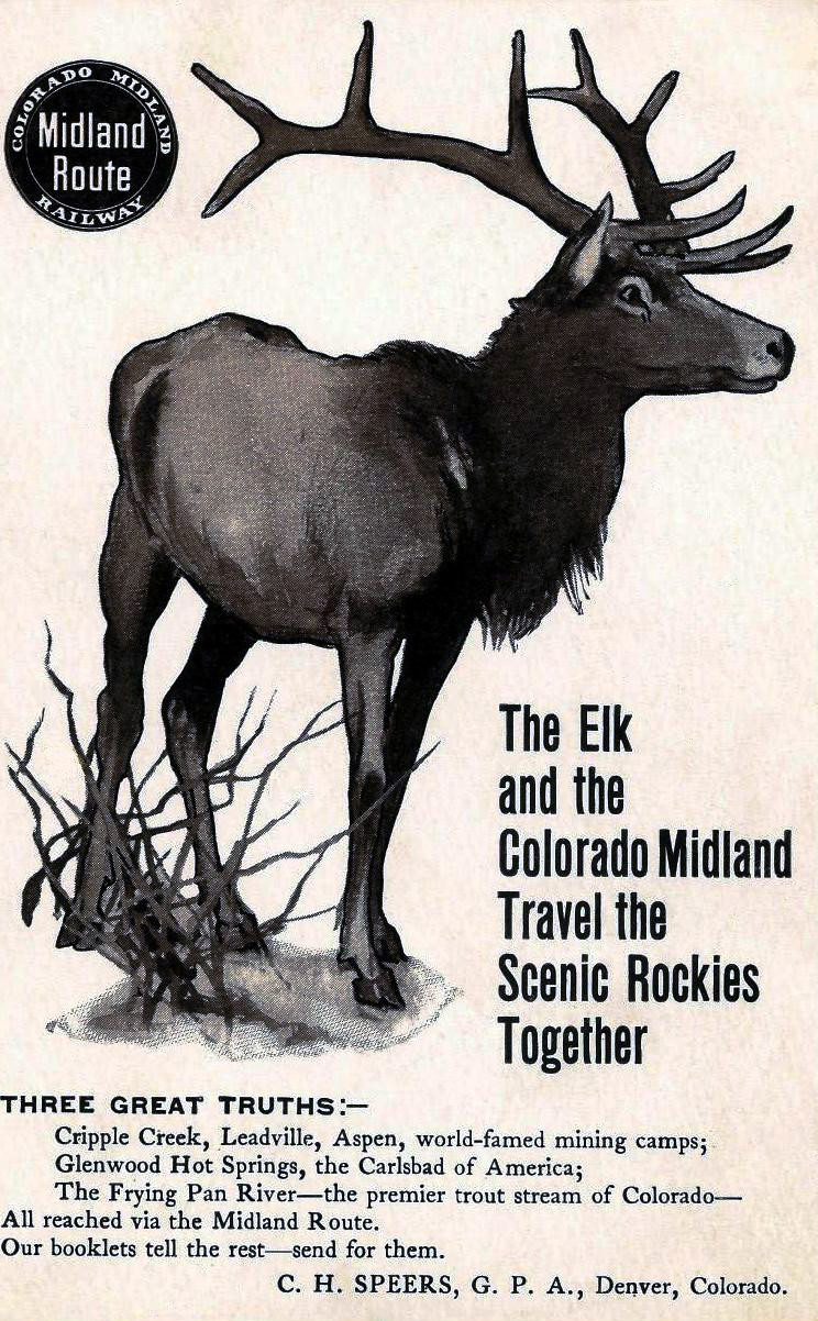 Postcard ad for the Colorado Midland Railway, which operated between 1883 and 1918.